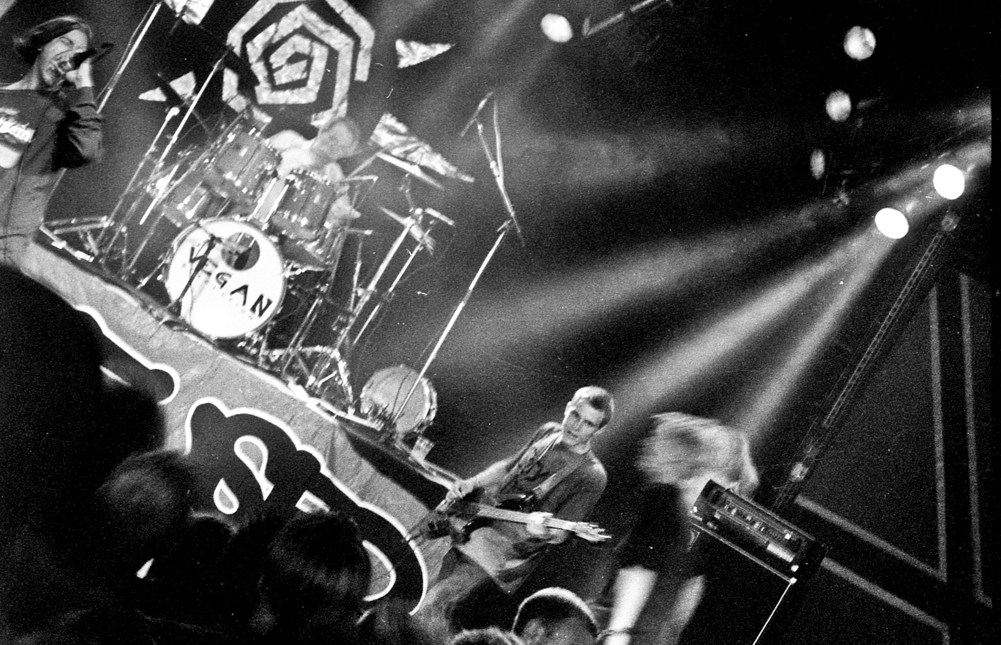 Refused @ Hultsfredsfestivalen 1994